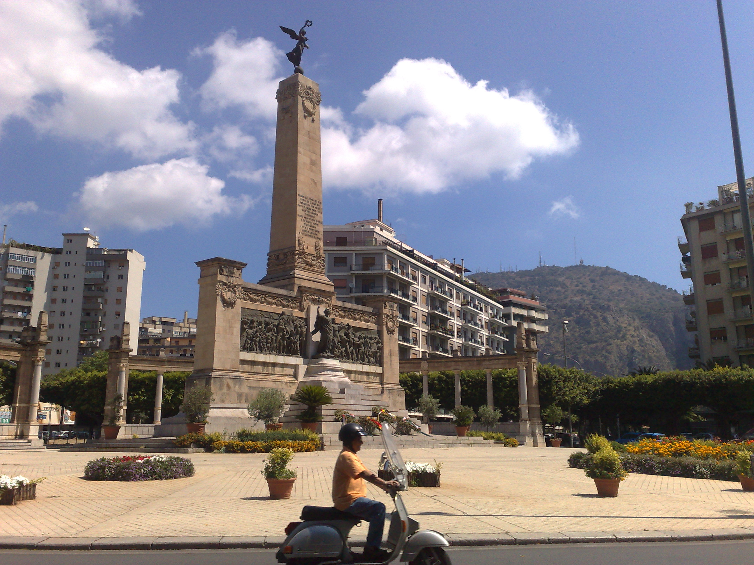 Palermo, World War I memorial by Ernesto Basile (1910). The bronze statue of the " Winged Victory" was casted by Mario Rutelli; the huge bronze high-relief and the allegorical group of "The Sicily with Italy the Motherland" by Antonio Ugo.